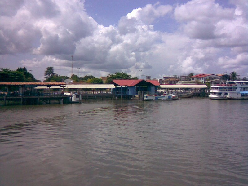 Front of the City of Muaná